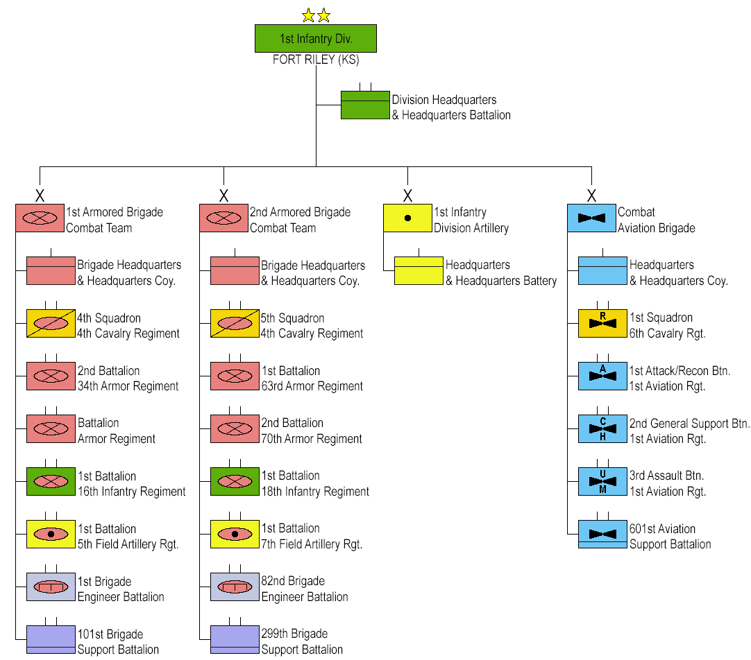 US Army 1st Infantry Division Structure